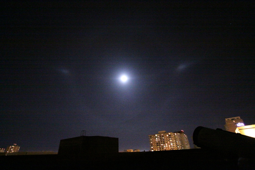 A halo around the Moon and a pair of moon dogs over the observatory at the University of Alberta (temporarily called FABservatory) in Edmonton, AB, Canada, on March 27 2010. The Moon was 94% illuminated.